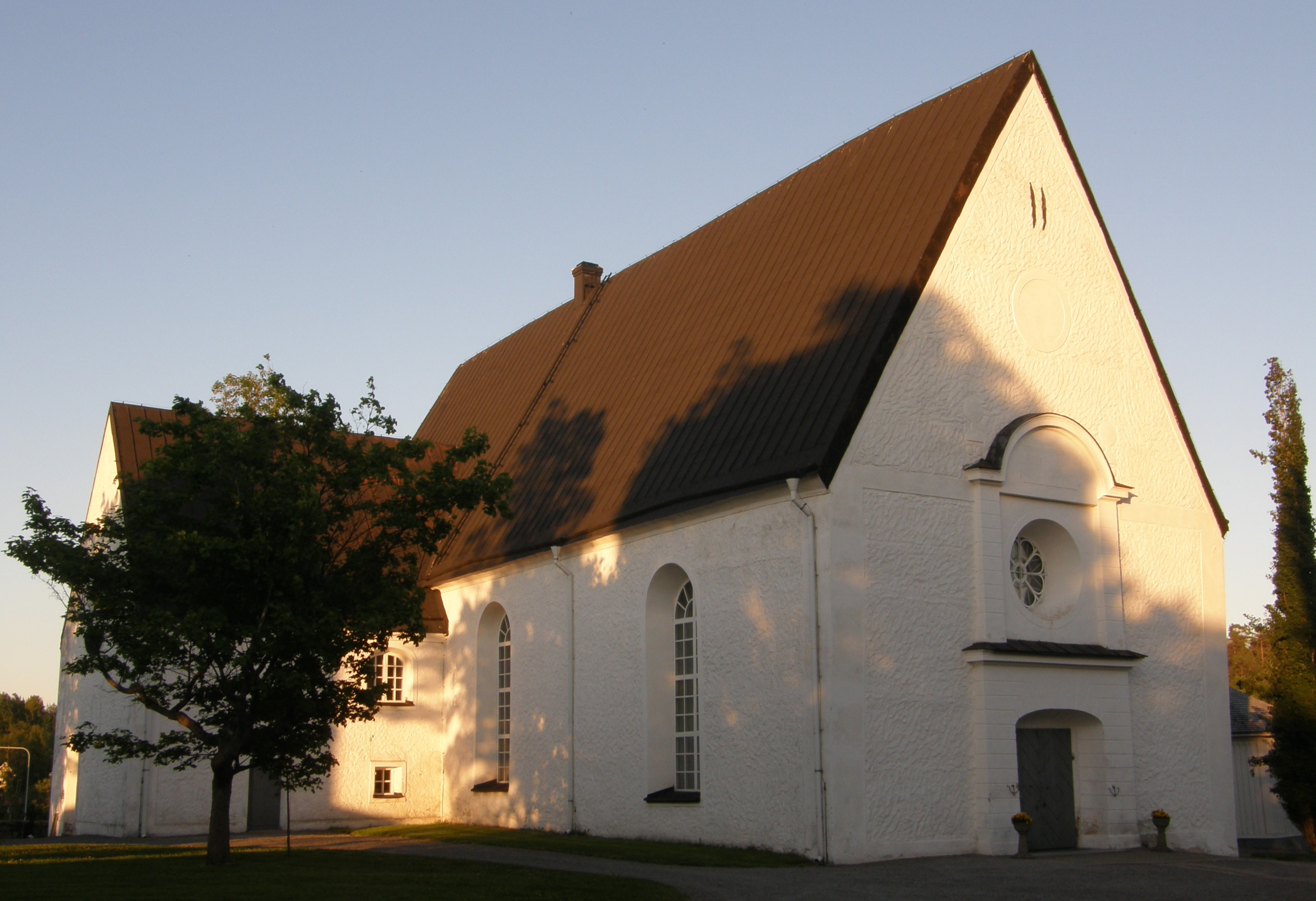 Lövånger church